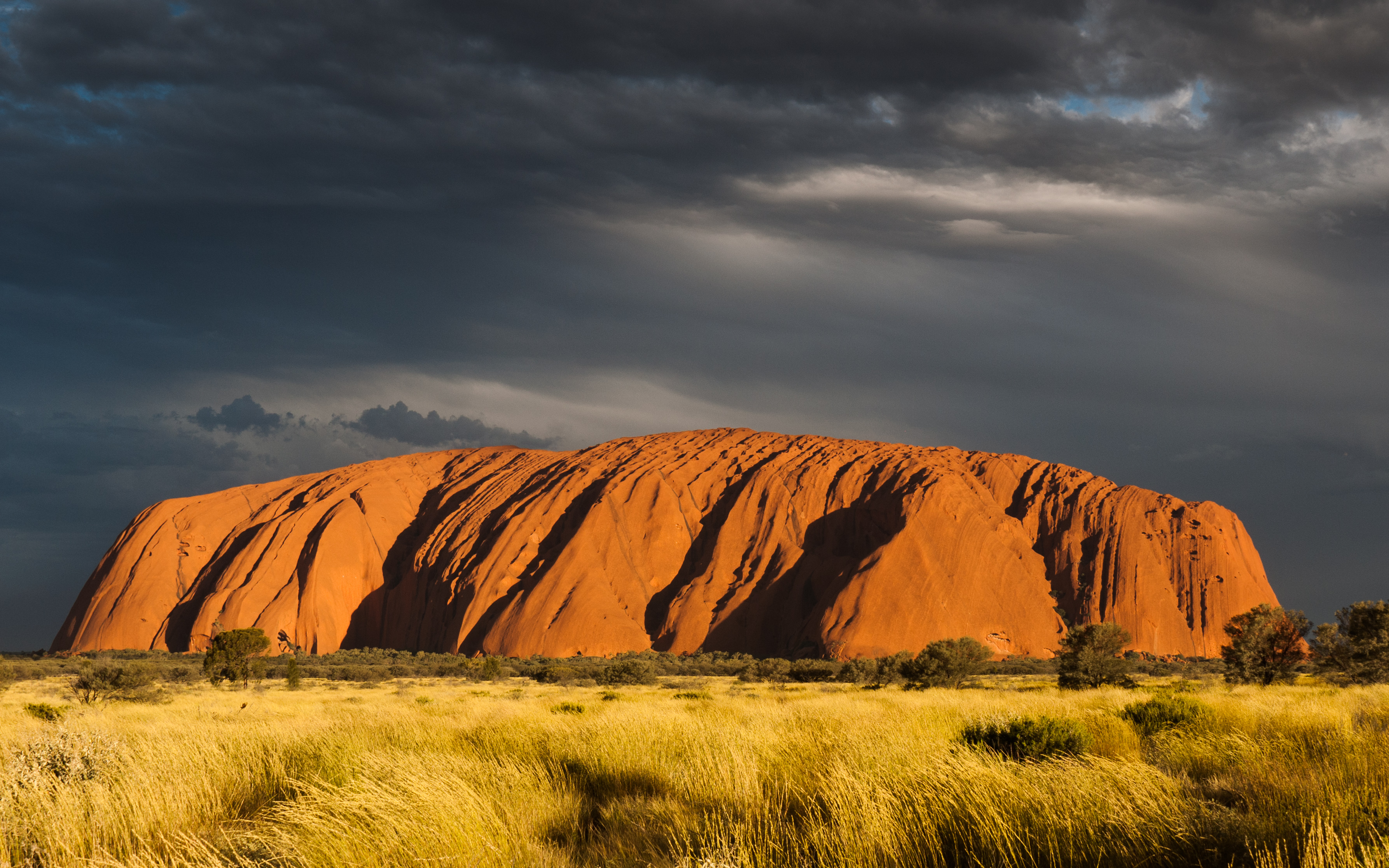 Uluru (Ayers Rock), Sunset